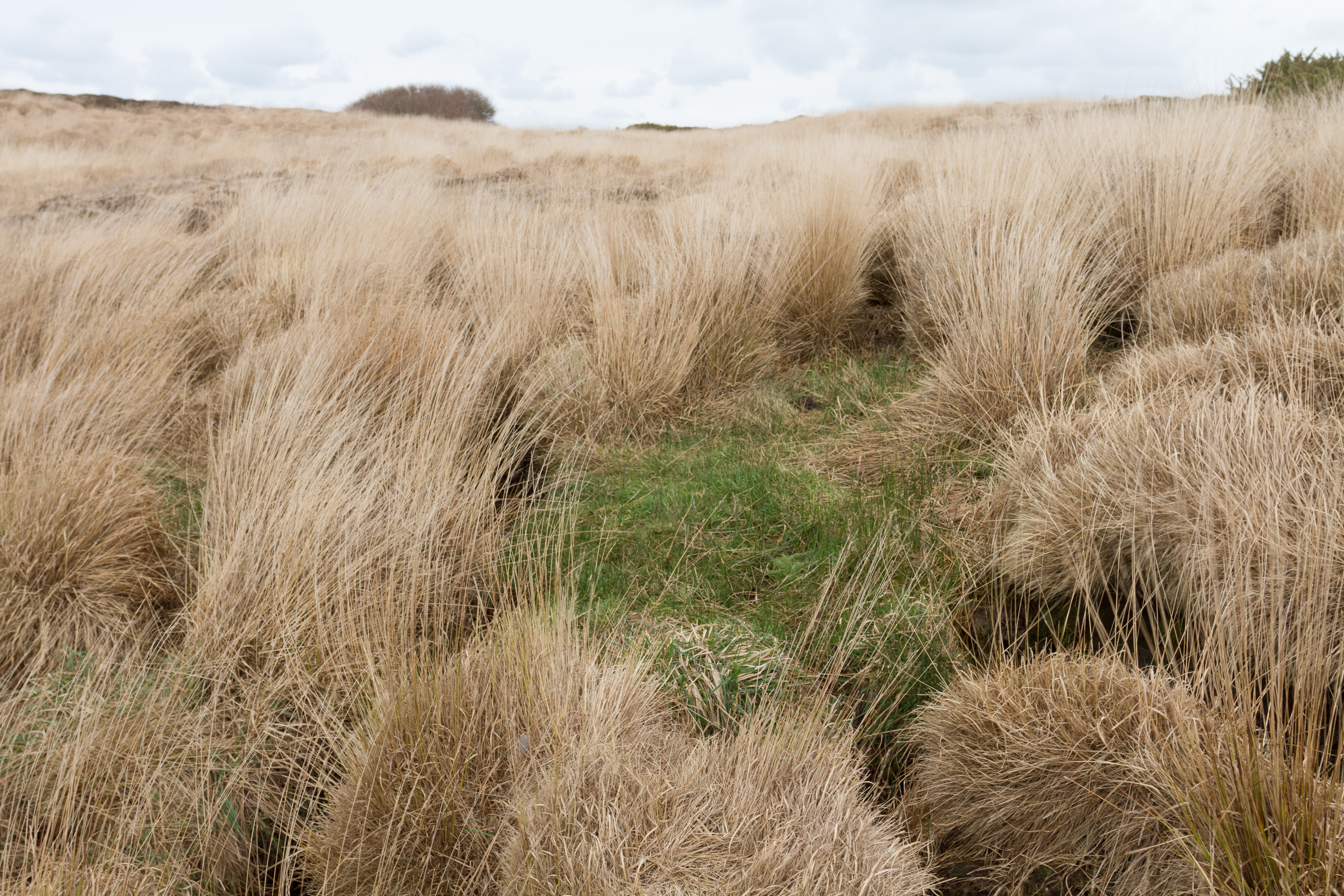 Wet area in Le Canné du Squez at Les Landes in St Ouen, Jersey.